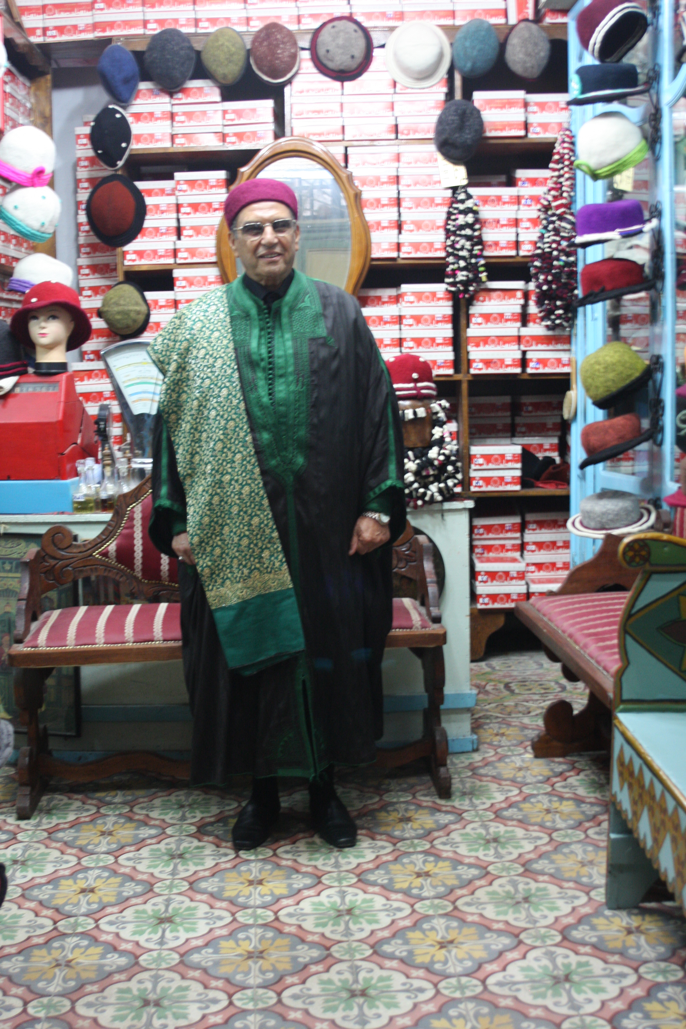 Cultural Fashion from Tunisia This is an image of Cultural Fashion or Adornment from Tunisia